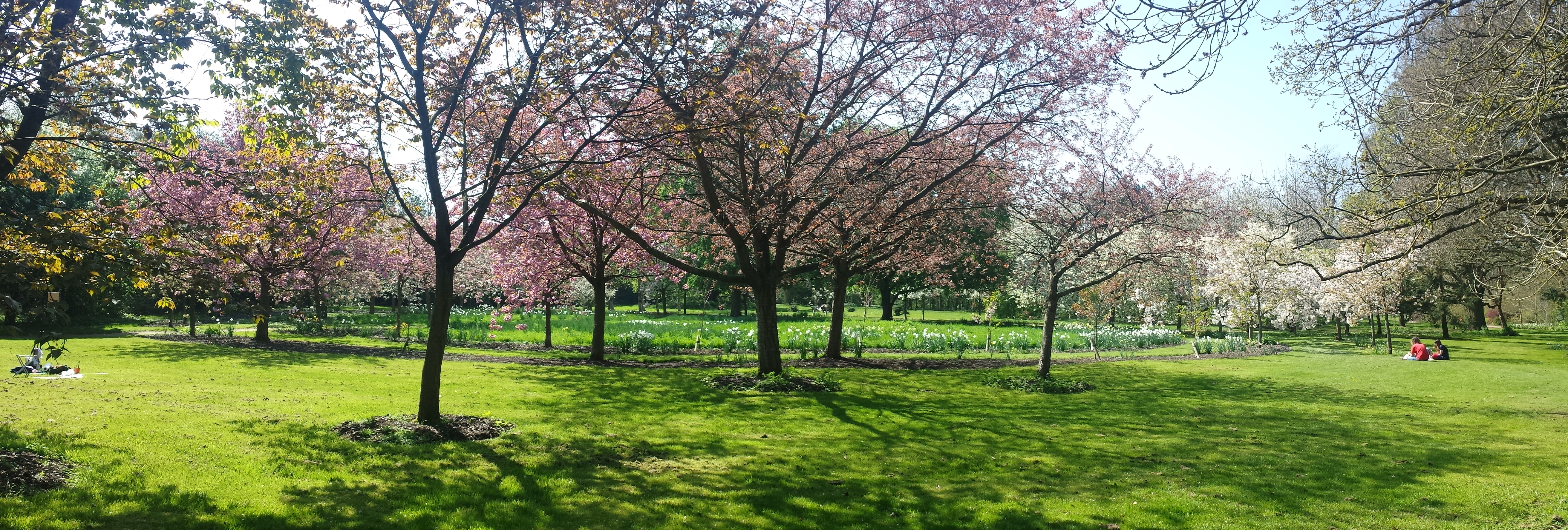 The Cherry tree circle at the Harris Garden on the Whiteknights Park campus of the University of Reading.